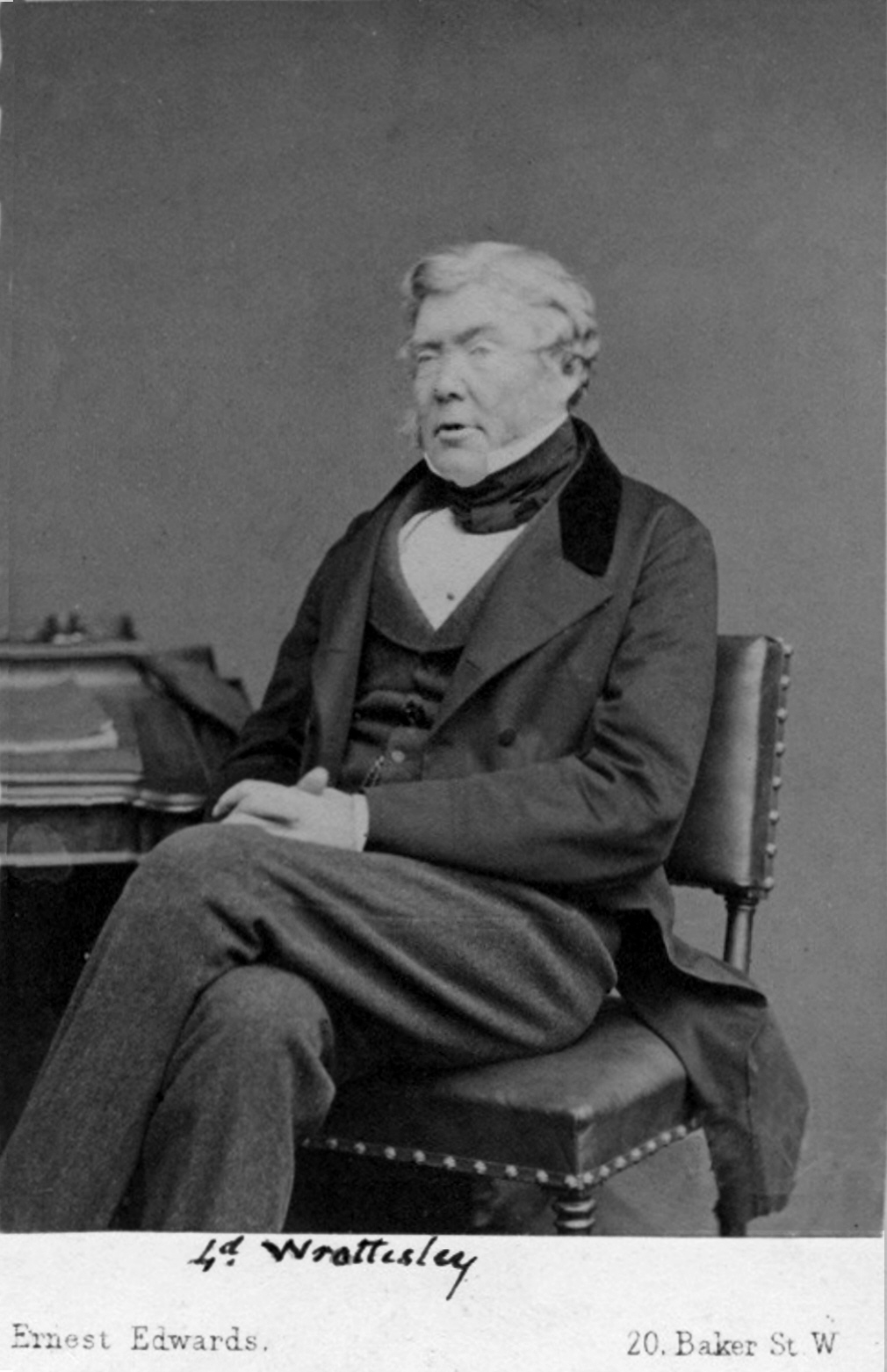 John Wrottesley, 2nd Baron Wrottesley (5 August 1798, Wrottesley Hall in Staffordshire – 27 October 1867, Wrottesley)